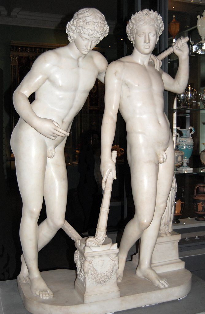 Joseph Nollekens (1737 - 1823) Castor and Pollux front, Victoria & Albert Museum. Castor and Pollux is a copy of an antique Roman statue. Apparently lots of sculptors made copies of it; this one is by Joseph Nollekens and is currently in the British Galleries in the V&A.